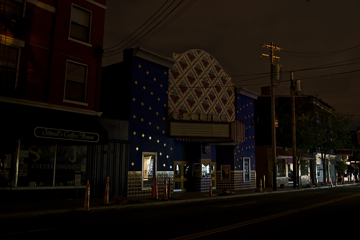 The Esquire Theater, located at 320 Ludlow Ave., Cincinnati, Ohio 45220, as seen during the blackout caused by the effects of Hurricane Ike.